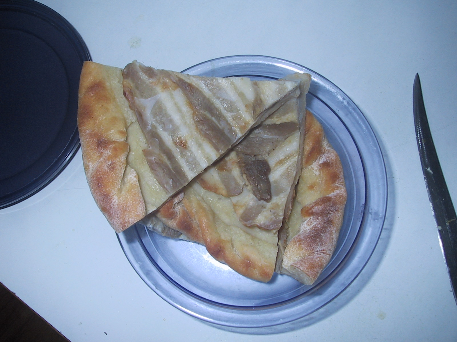 "Fat lefse", the traditional Finnish delicacies